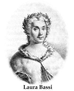 italian physicsist Laura Bassi